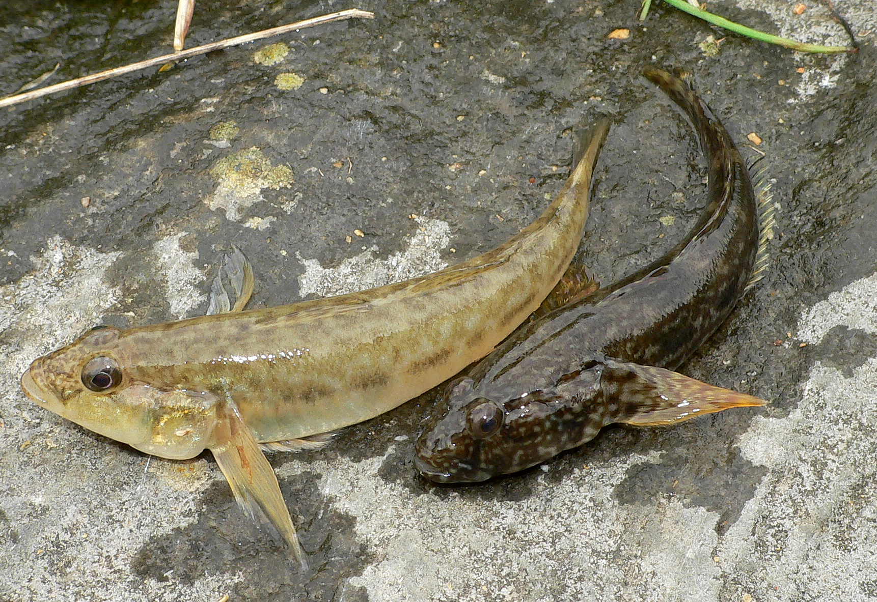 Neogobius fluviatilis and Neogobius kessleri, two invasive species from the Danube caught in the Rhine. Neogobius fluviatilis prefers sandy bottomes, N. kessleri rocky bottoms, which is reflected in the color. The ligh sany colored fish is Neogobius fluviatilis. Neogobius kessleri has a wide mouthgape which it uses to predate on juvenile cyprinids.